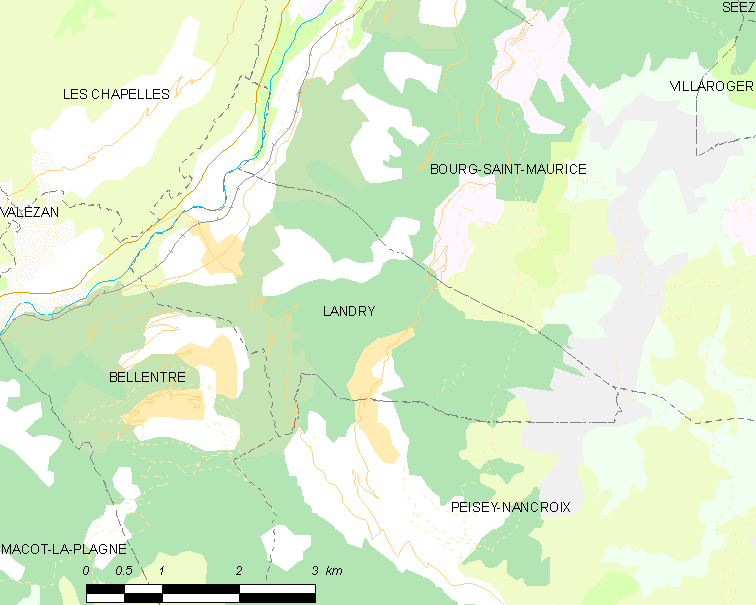 Map of French municipality